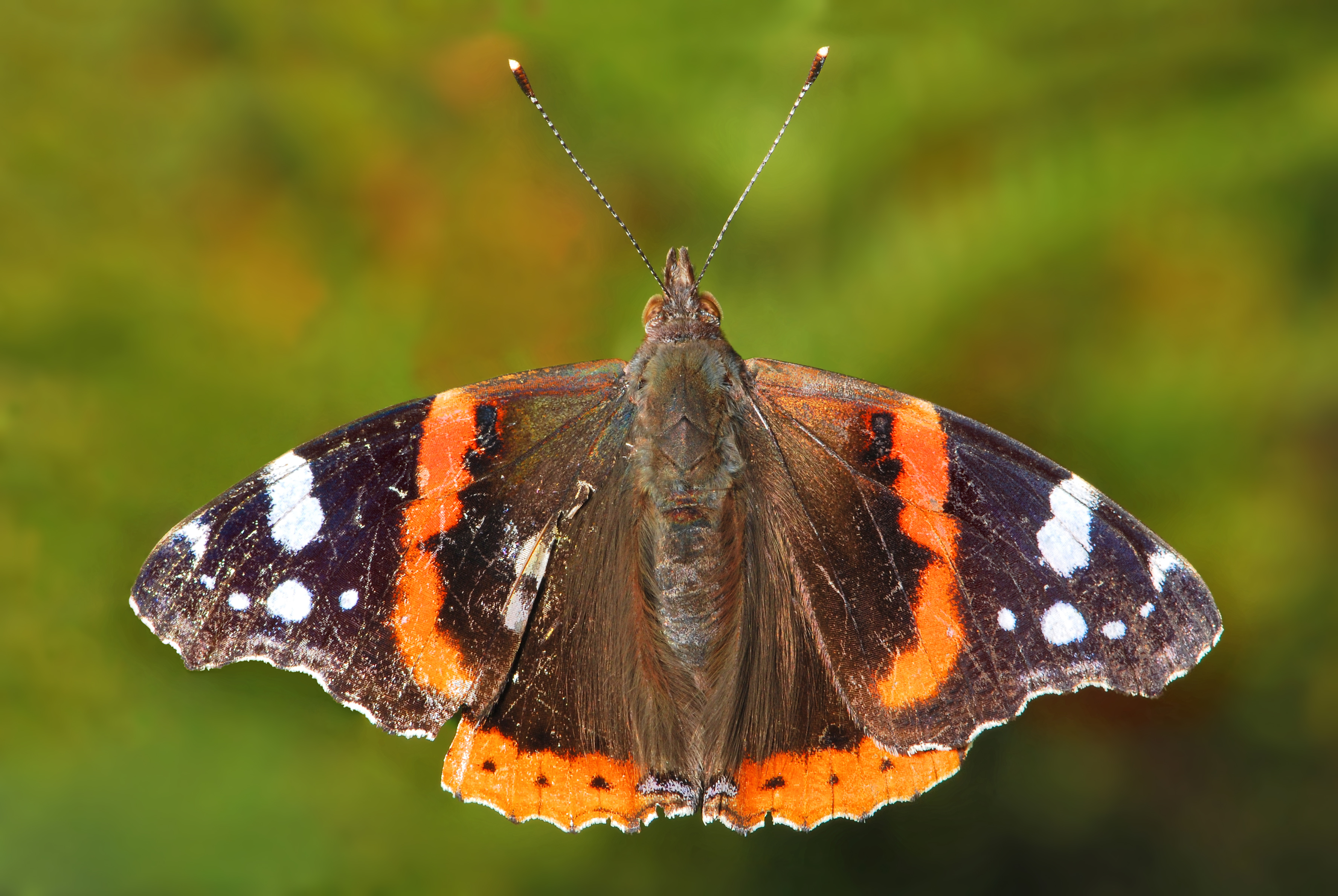 An adult specimen of Vanessa atalanta – commonly known as the Red Admiral. Its wingspan is about 60 mm and it must have survived a predator's attack, since the left wing was seriously damaged.